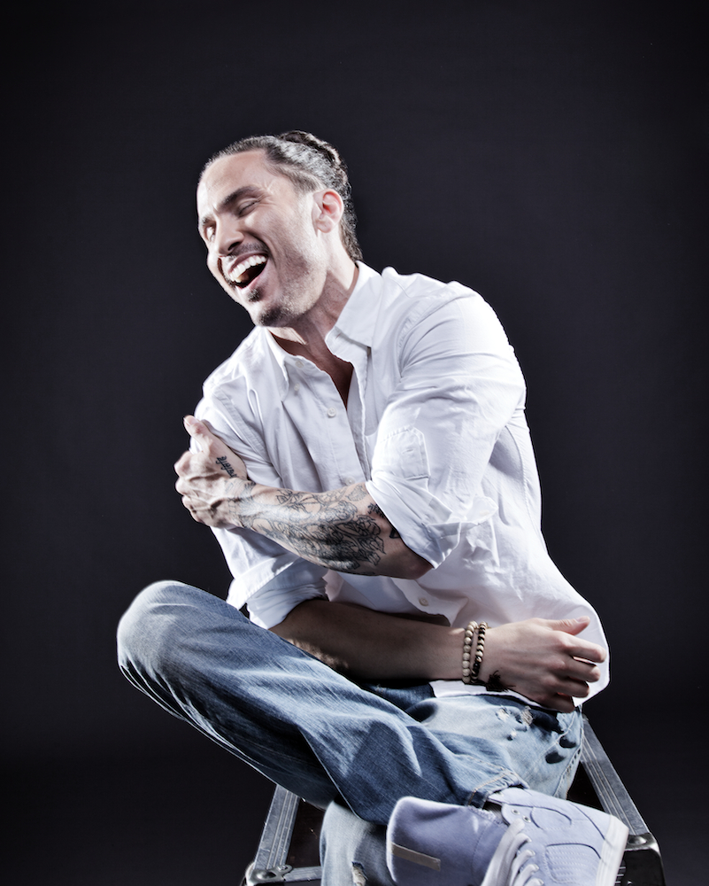 Avery Storm Photo 1